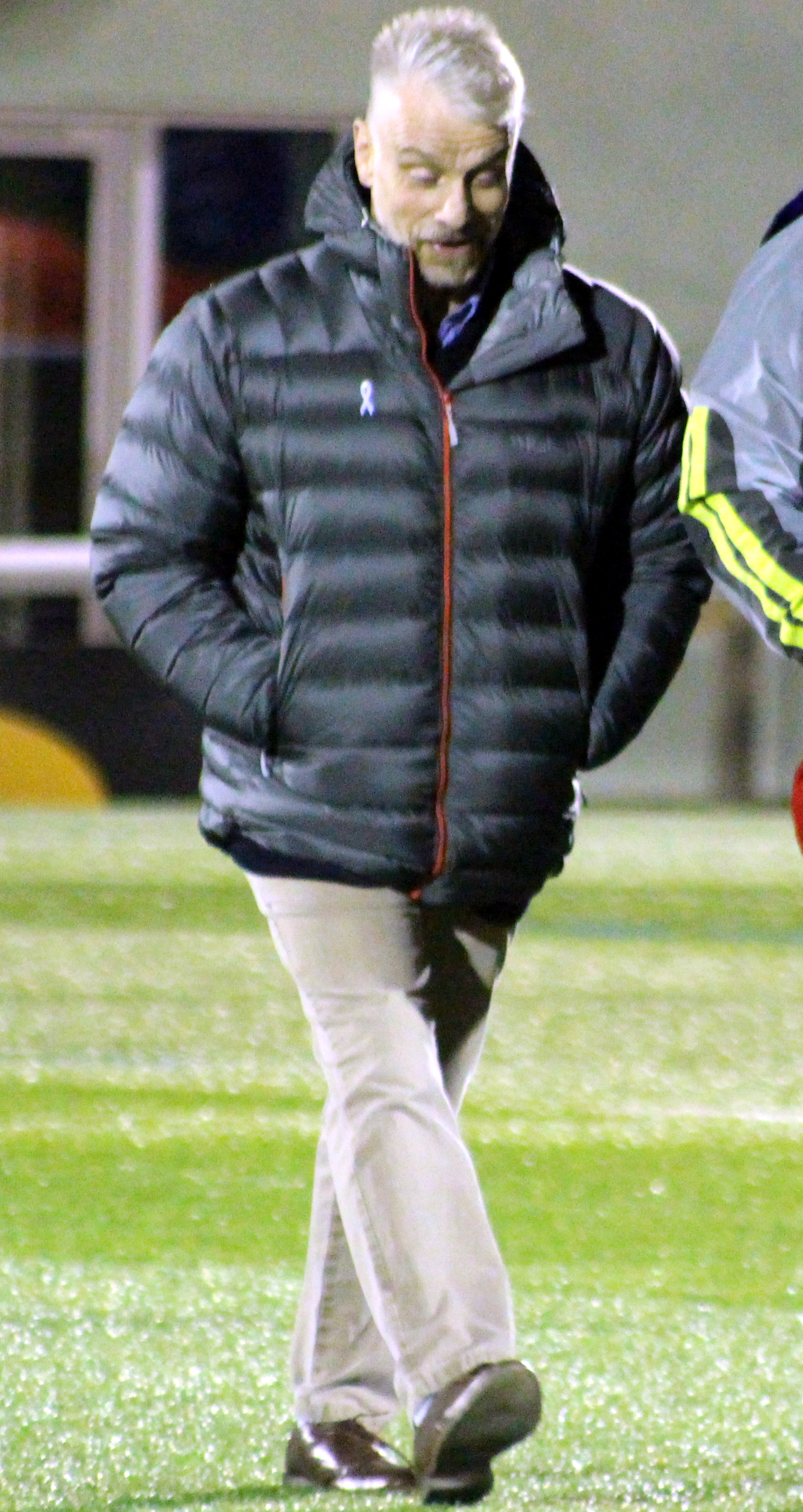 Brian Noble